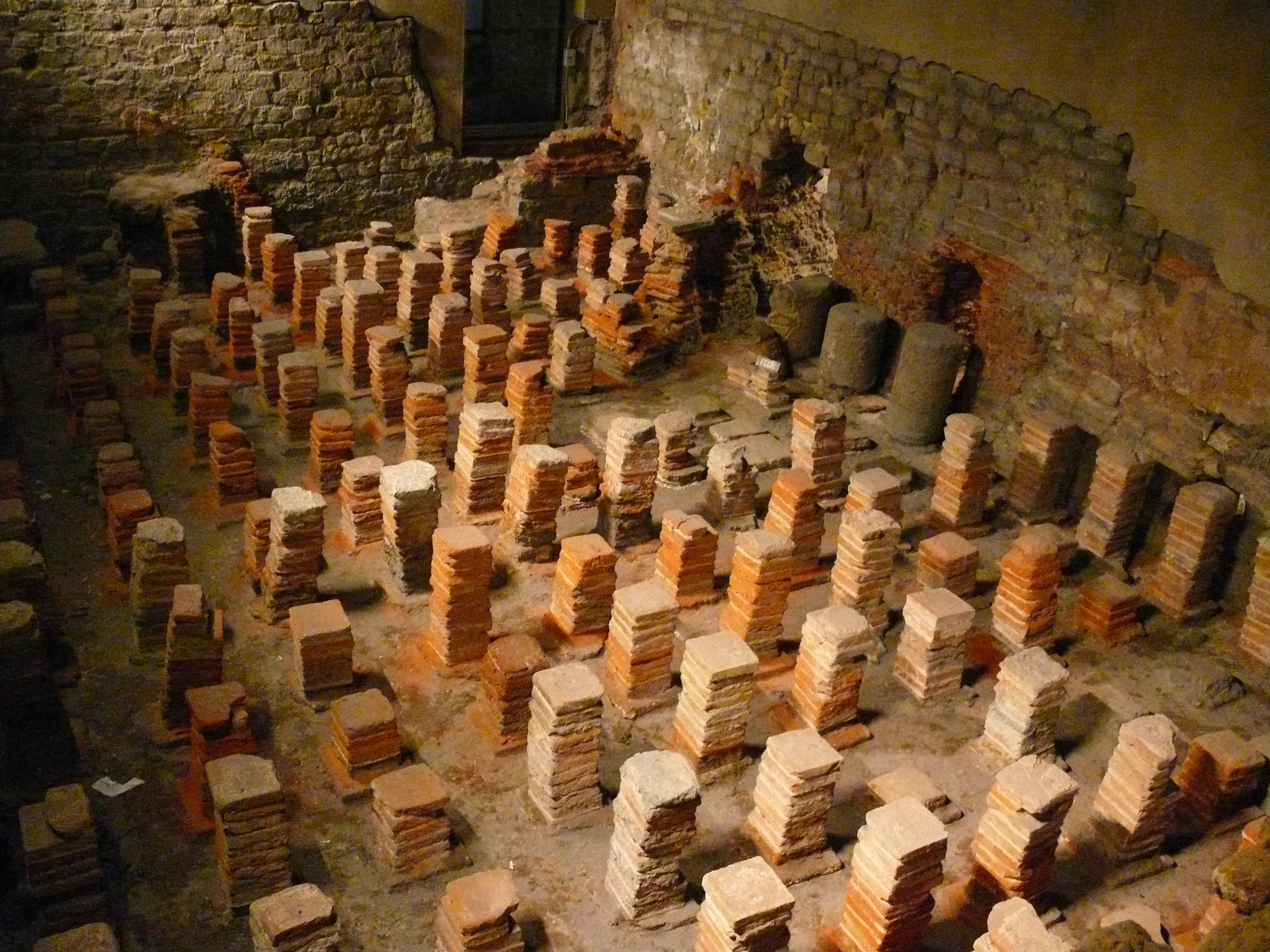 A hypocaust (Latin hypocaustum) in the Roman Baths, Bath, UK. A hypocaust is an ancient Roman system of central heating. The word literally means "heat from below", from the Greek hypo meaning below or underneath, and kaiein, to burn or light a fire.